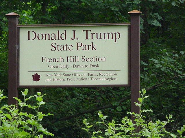 Alan Kroeger A Photo I took with an old Sony Mavica (MVC FD88) at the entrance to the French Hill parcel.